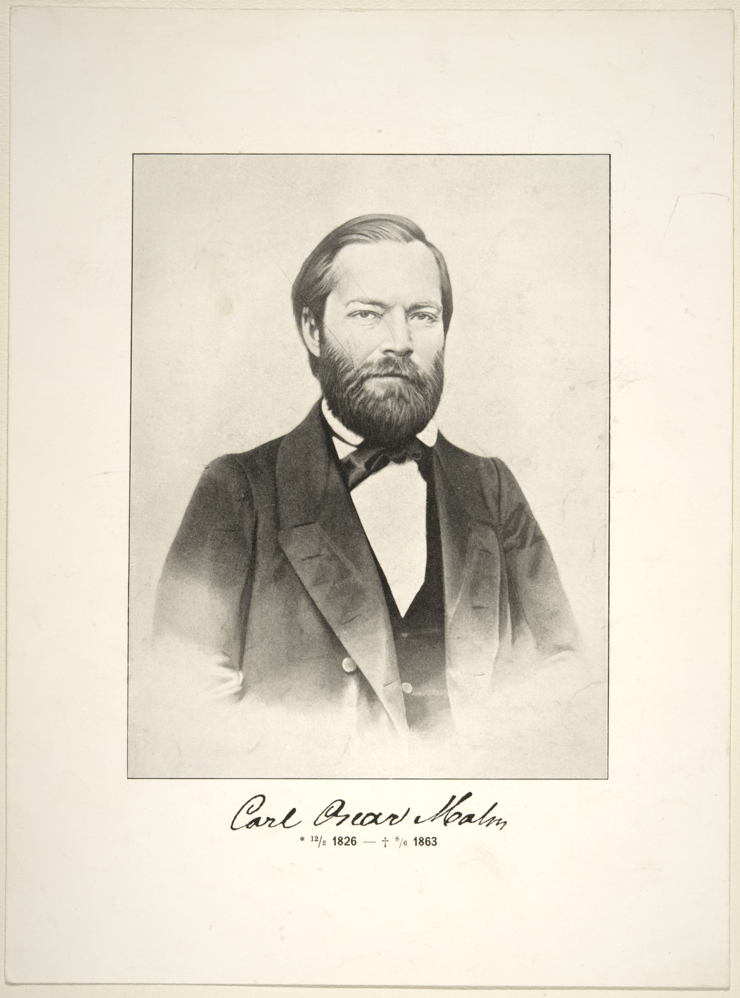 Illustration of the Finnish teacher of deaf people Carl Oscar Malm (1826–1863).